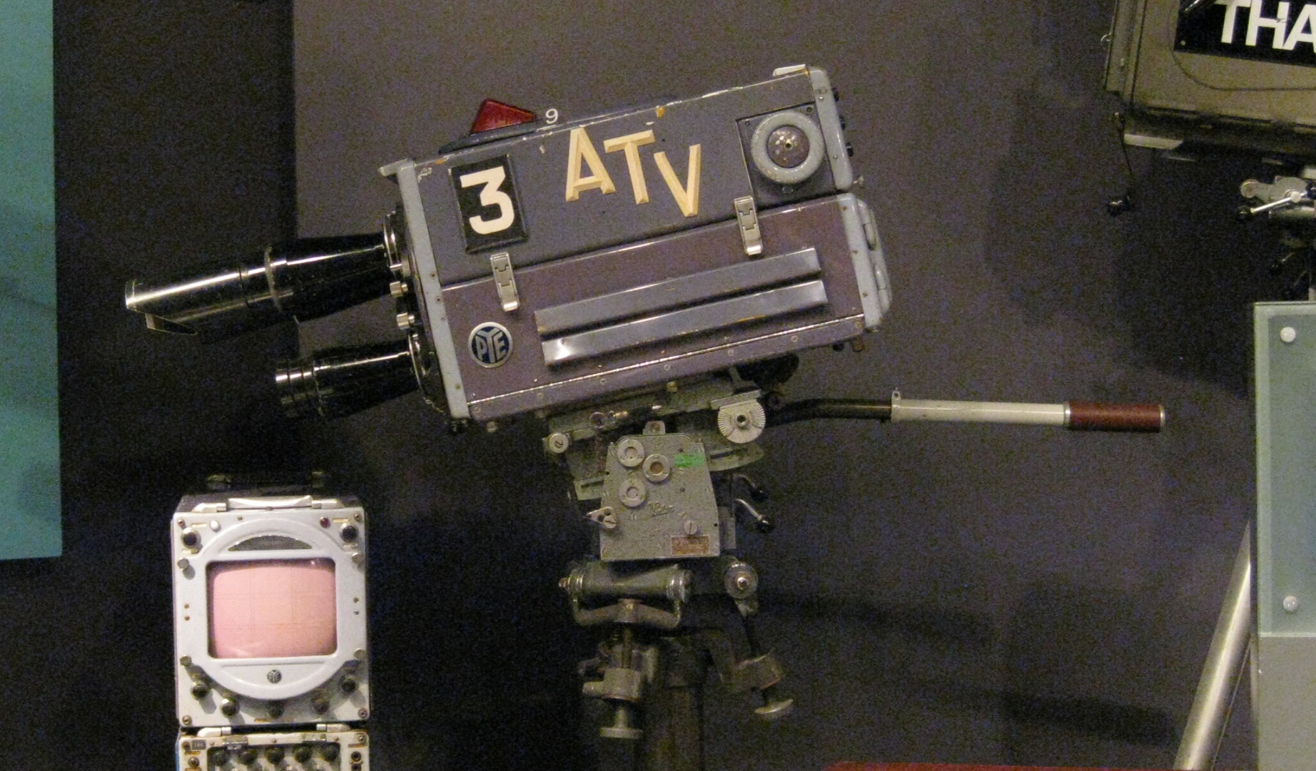 ATV (Associated Television) TV camera on display at the National Media Museum, Bradford. Manufacturer Pye.